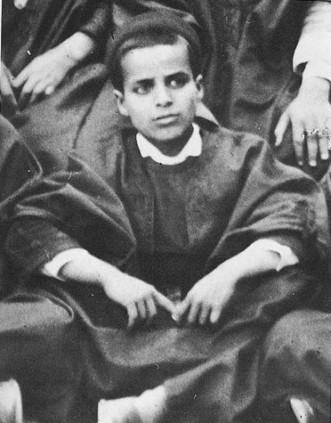 Bourguiba pupil at the Sadiki College 1917